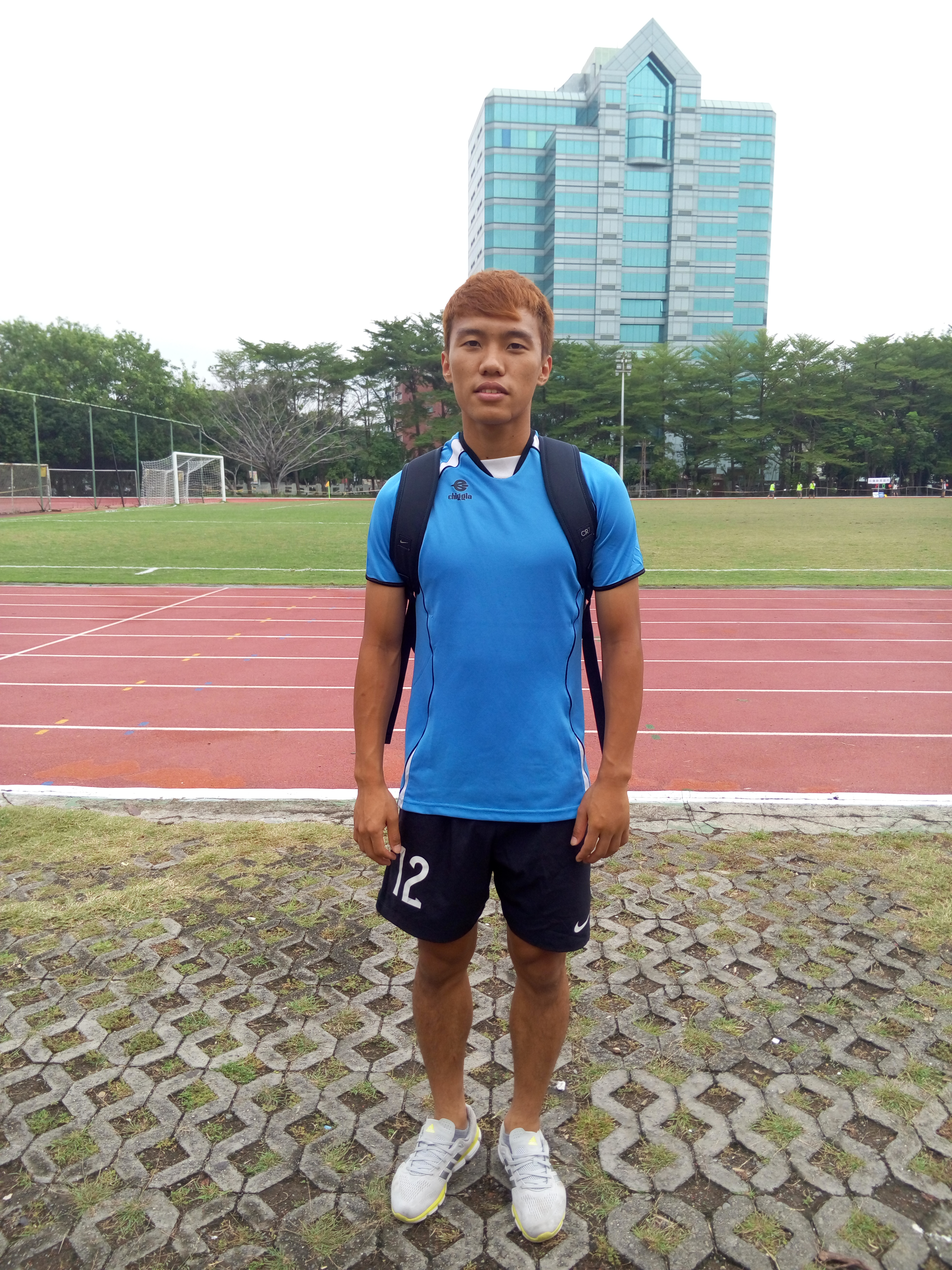 Chen Chao-An, the footballplayer from Taiwan